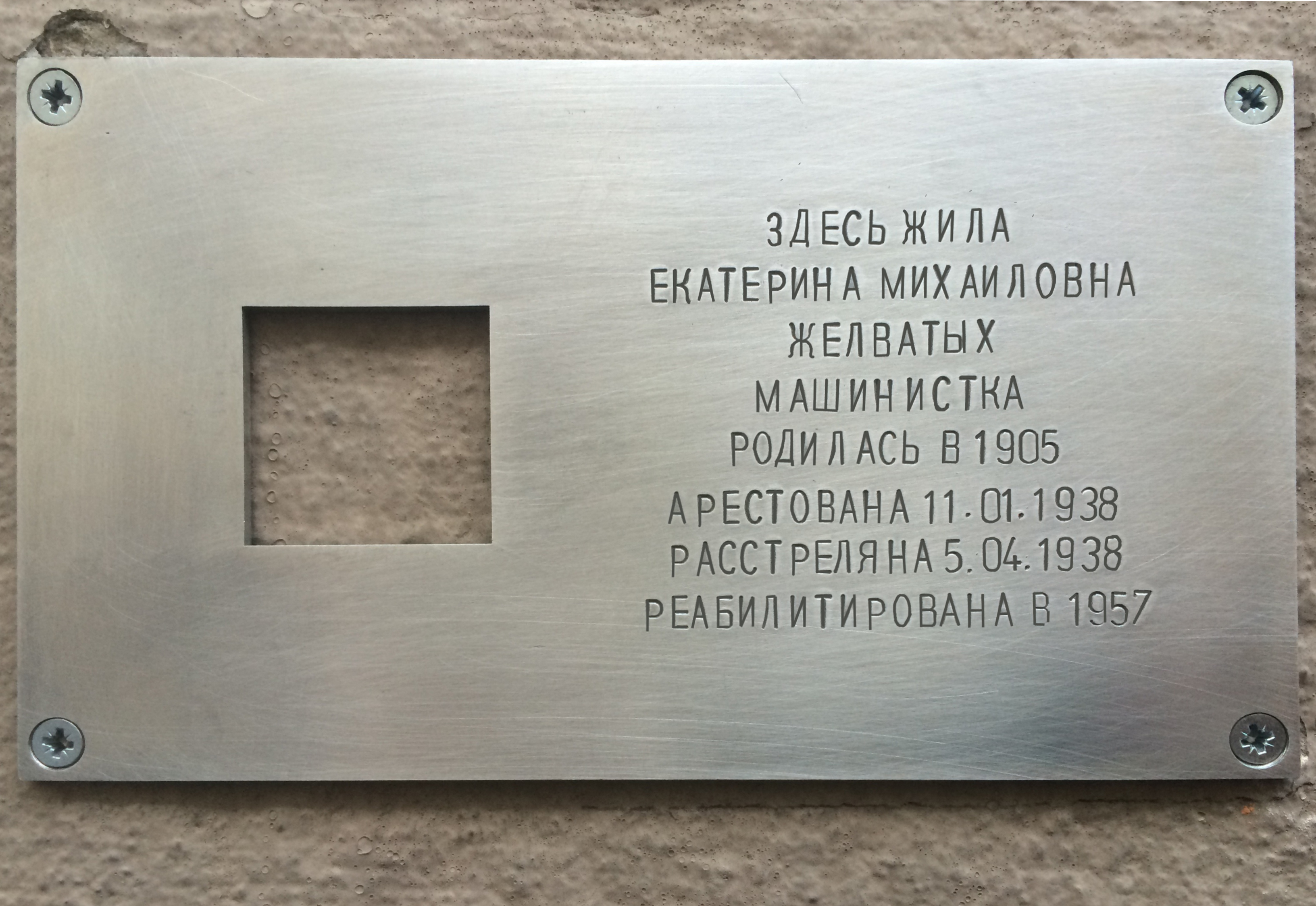 Memorial plaque installed in Moscow as part of the "Last Address" initiative. Reads "Here lived Yeraterina Mikhailovna Zhelvatykh, typist, born in 1905, arrested 11/1/1938, executed 04/05/1938, rehabilitated in 1957"